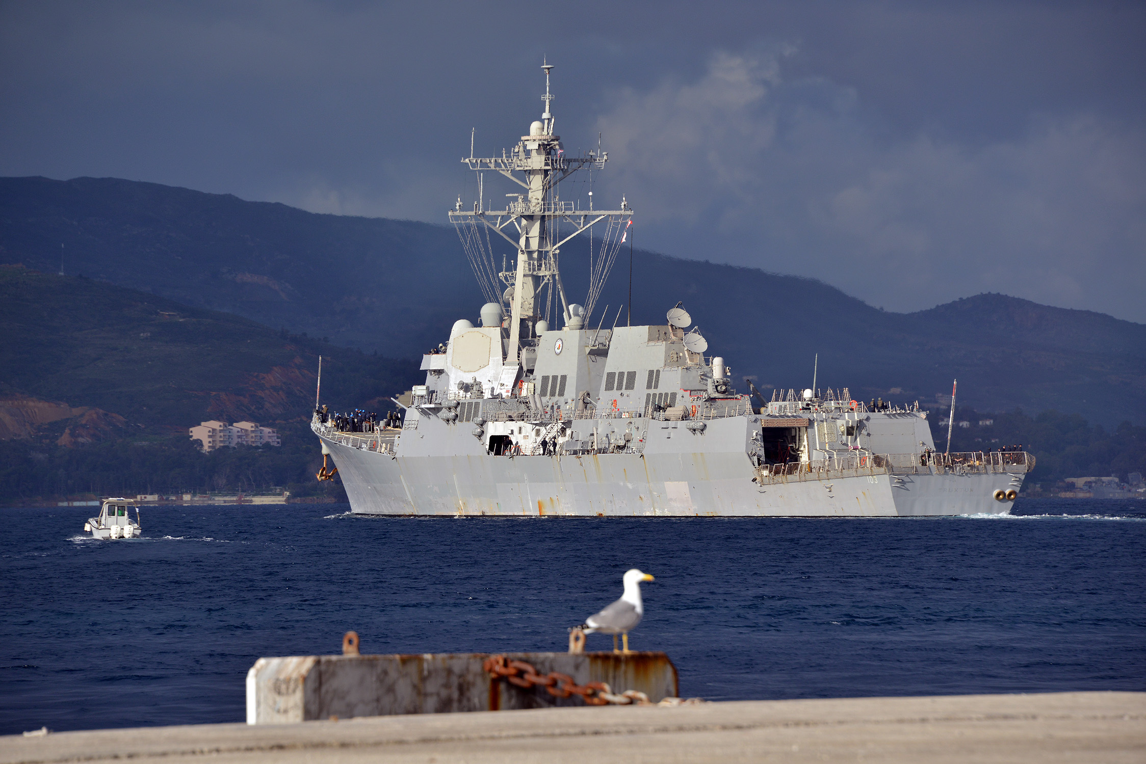 140306-N-MO201-151 SOUDA BAY, Greece (March 6, 2014) The guided-missile destroyer USS Truxtun (DDG 103) departs the Marathi NATO pier facility following a scheduled port visit to the Greek island of Crete. Truxtun is deployed in support of maritime security operations and theater security cooperation efforts in the U.S. 6th Fleet area of responsibility. (U.S. Navy photo by Paul Farley/Released)